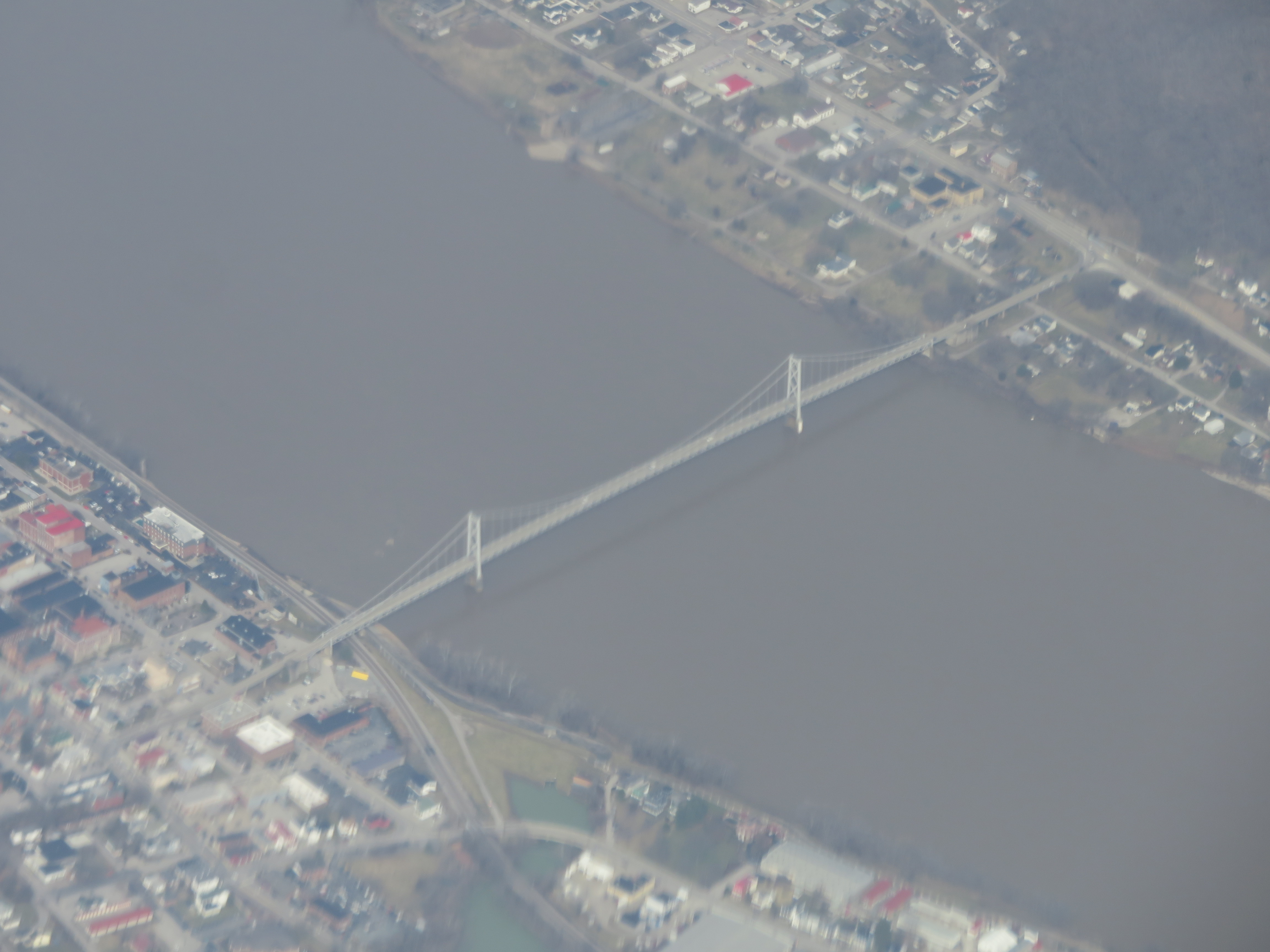 Aerial view of the Simon Kenton Memorial Bridge over the Ohio River in 2019